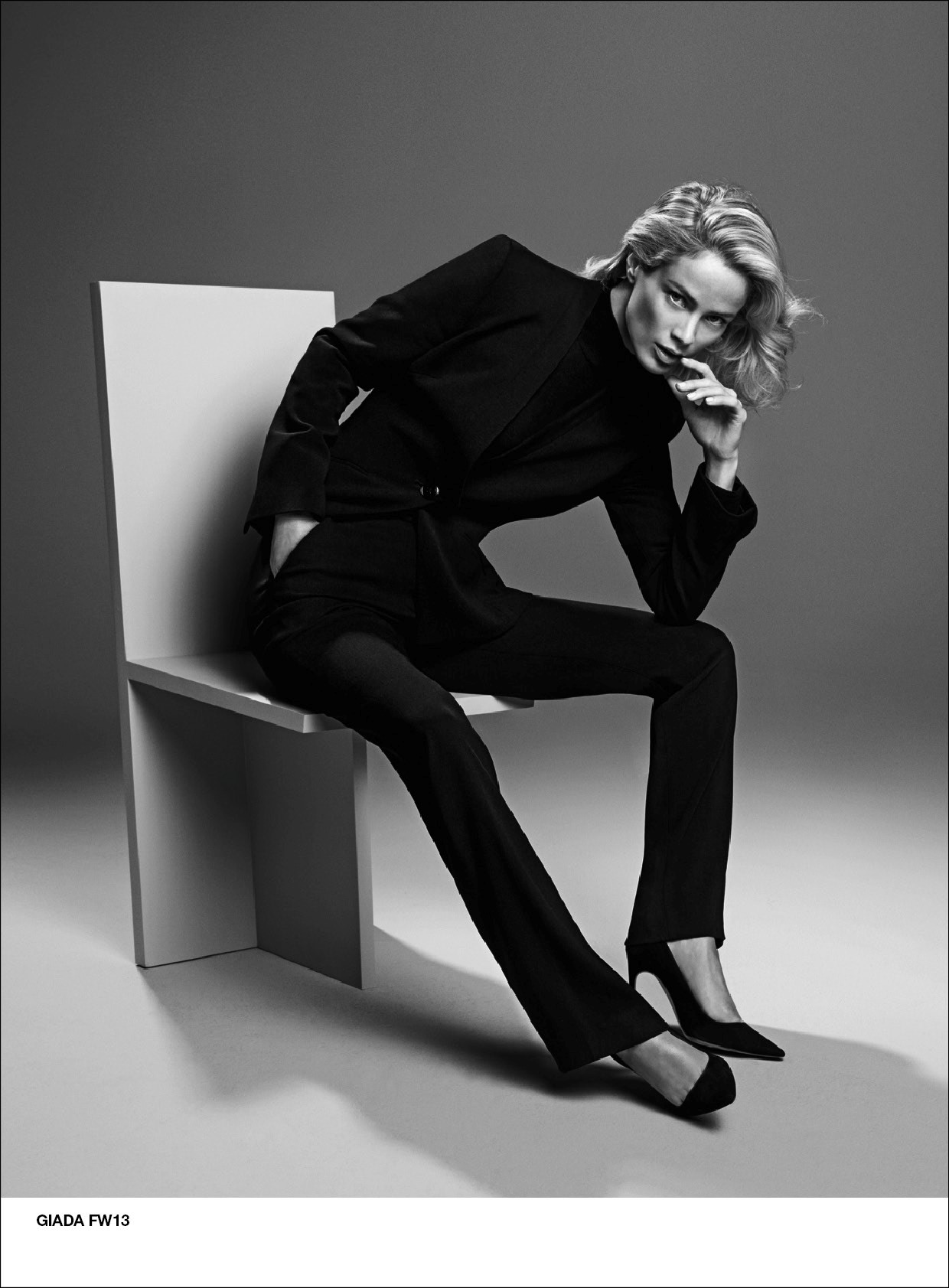 Giada advertising campaign FW13